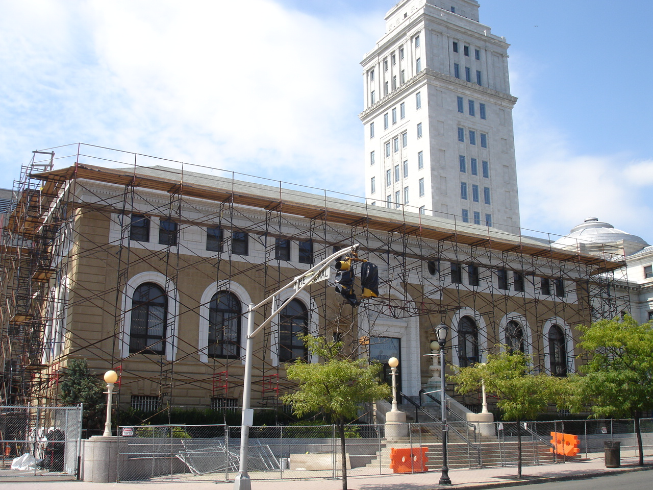 I took this photo of the Elizabeth Public Library myself on September 2, 2011